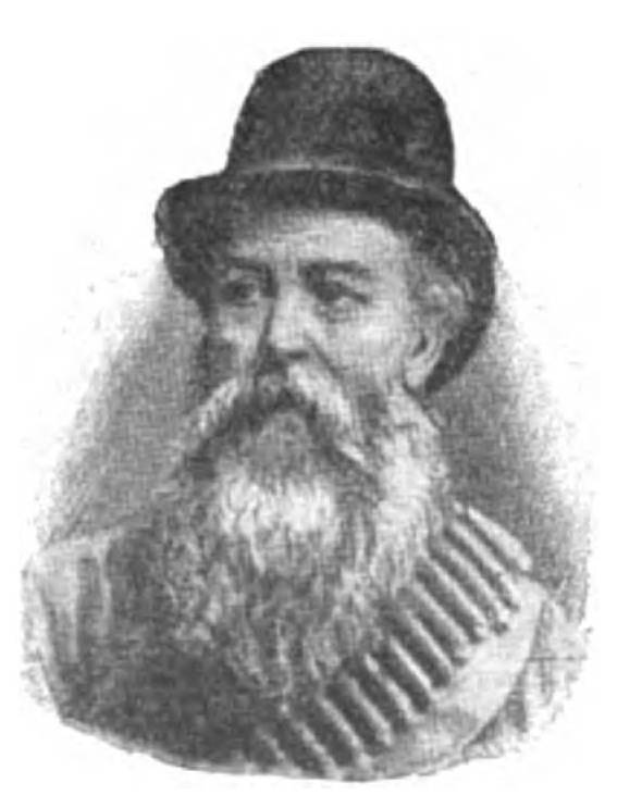 no caption